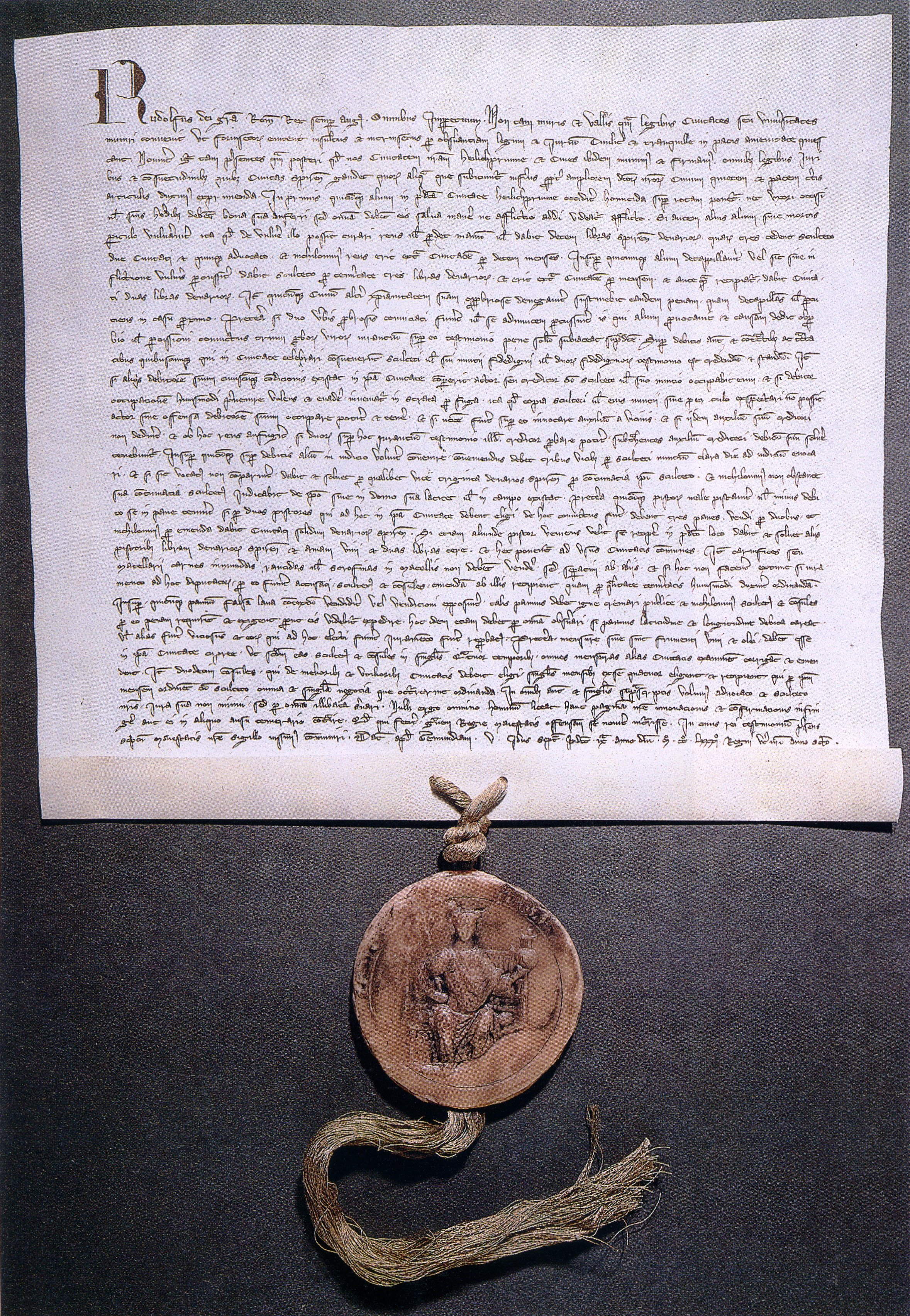 City charter of Heilbronn from 1281